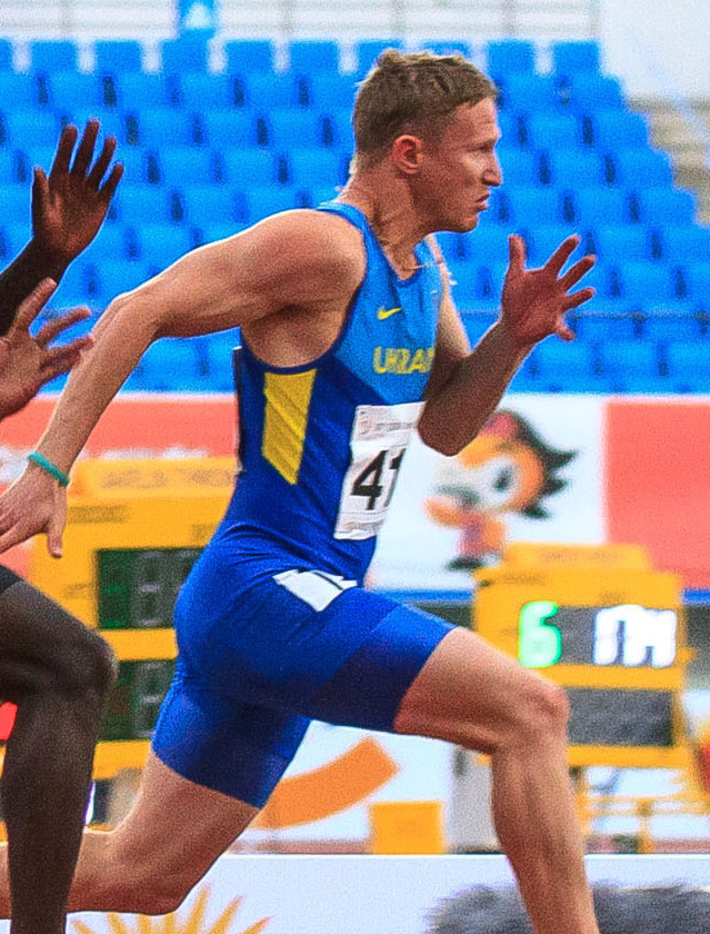 Serhiy Smelyk at the 2015 Military World Games